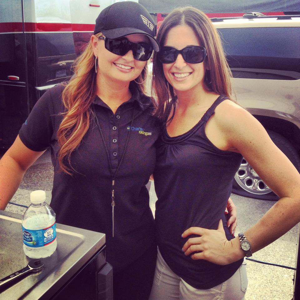 Courtney Enders Courtney (L) and her sister, Erica at the NHRA Spring Nationals in Houston 2013